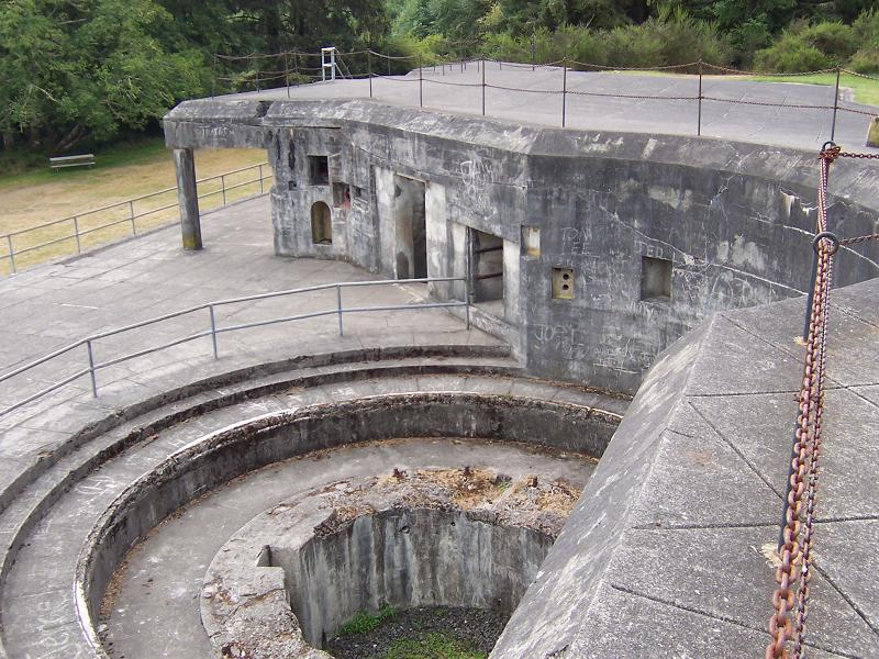 Fort Flagler